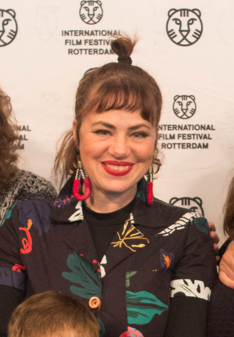 Karine Teles at the premier of Loveling during the IFFR 2018